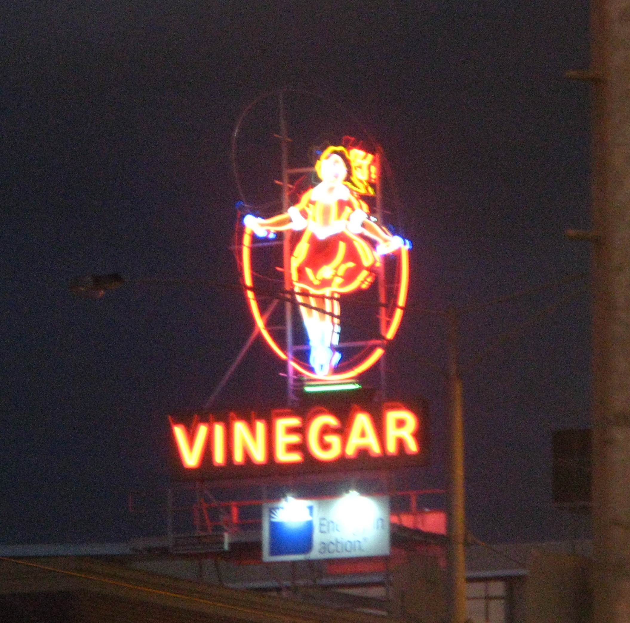 The Skipping Girl Vinegar sign on Victoria Street, Richmond/Abbotsford, Melbourne, Victoria, Australia, at dusk. Photo taken by Nick carson in September 2010.